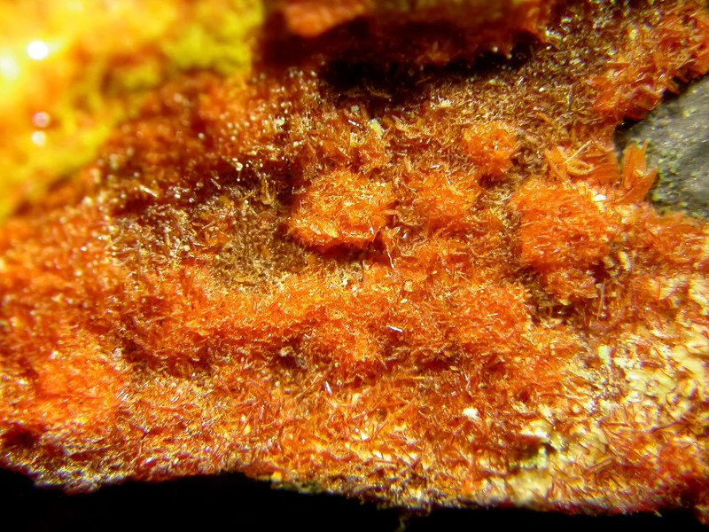 Fourmarierite, Becquerelite, Uraninite Locality: Shinkolobwe Mine (Kasolo Mine), Shinkolobwe, Central area, Katanga Copper Crescent, Katanga (Shaba), Democratic Republic of Congo (Zaïre) (Locality at ) Size: 5 x 5 x 4 cm. A rich example of Uraninite covered with red hexagonal Fourmarierite crystals. The crystals are associated with good sized and well formed Becquerelite crystals. Shinkolobwe is the type locality for both of Fourmarierite and Becquerelite. Ex. Carnegie Museum Collection.